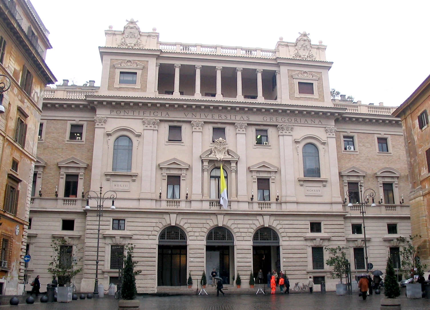 Pontifical Gregorian University